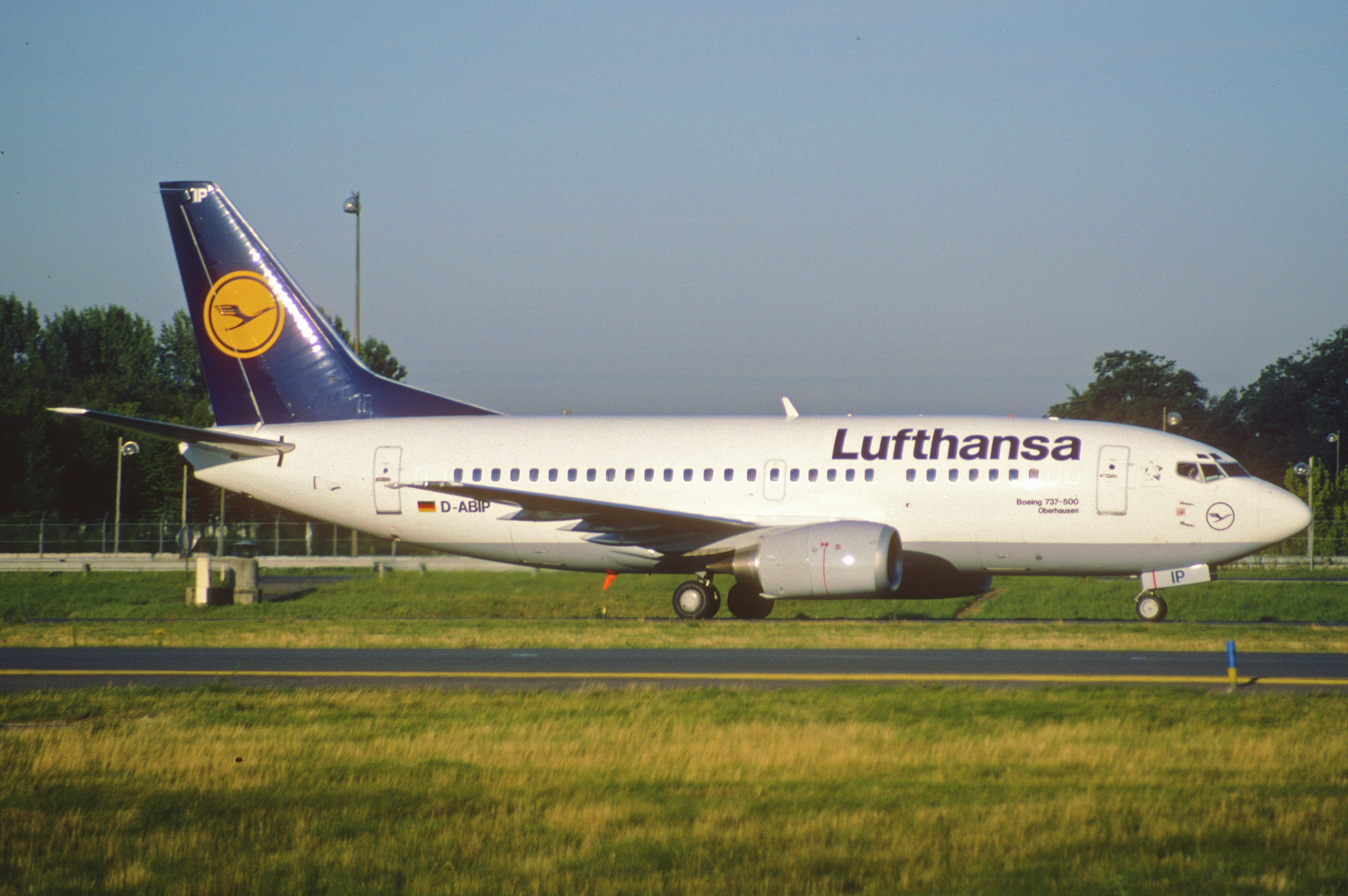 This Boeing 737-530, named 'Oberhausen', took its first flight on March 22, 1991 and was delivered to LH on April 30, 1991...(c/n 24940/ 2034)